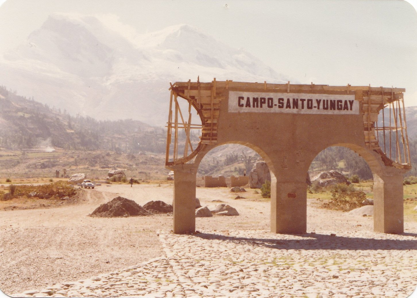 Inscription on the back side: "A town where 35,000 people lived stood here; after an earthquake and a subsequent landslide from Huascarán (in the background) here's just a stone debris. It all happened within a few minutes on May 31st 1970."